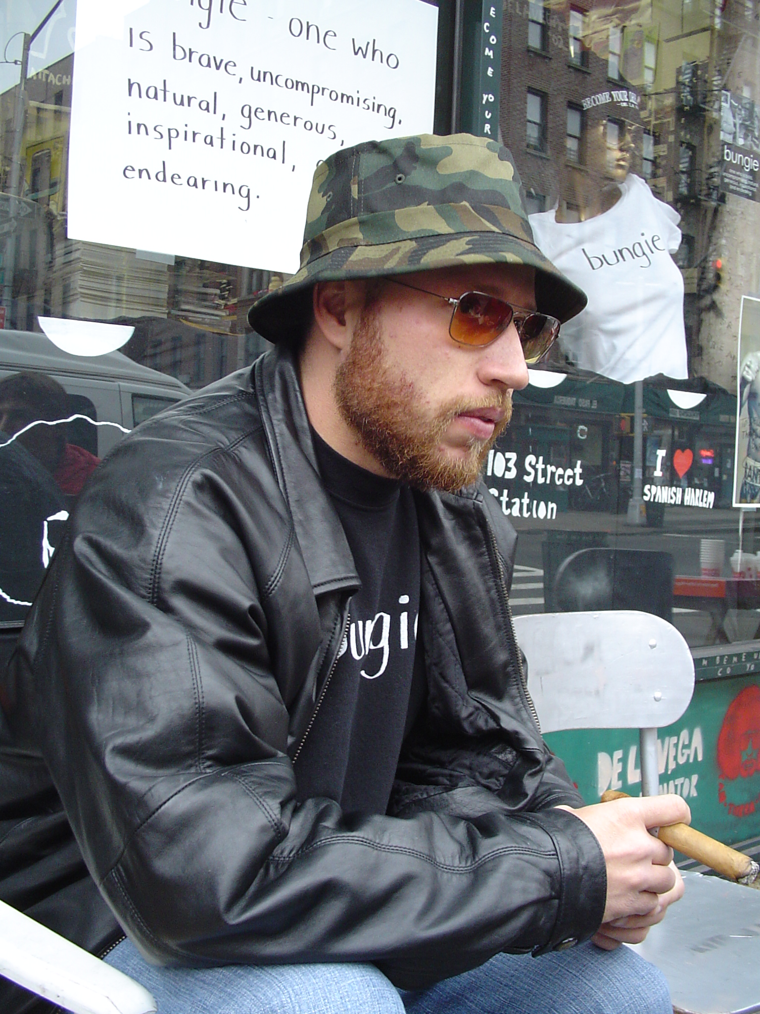 James De La Vega speaks to El Nuevo Cojo Ilustrado journalists during an interview in front of his former shop on Lexington Ave. and 104 street in Spanish Harlem.